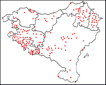 Author: Sugaar Source: X. Peñalver, Euskal Herria en la Prehistoria, 1996. ISBN 84-89077-58-4 Legend: Late Bronze and Iron Age sites in the Basque Country. Time span: c. 1300-50 BCE. The important town of La Hoya is marked with a larger dot.